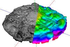 false color coded dataset of concrete surface generated with Final Surface